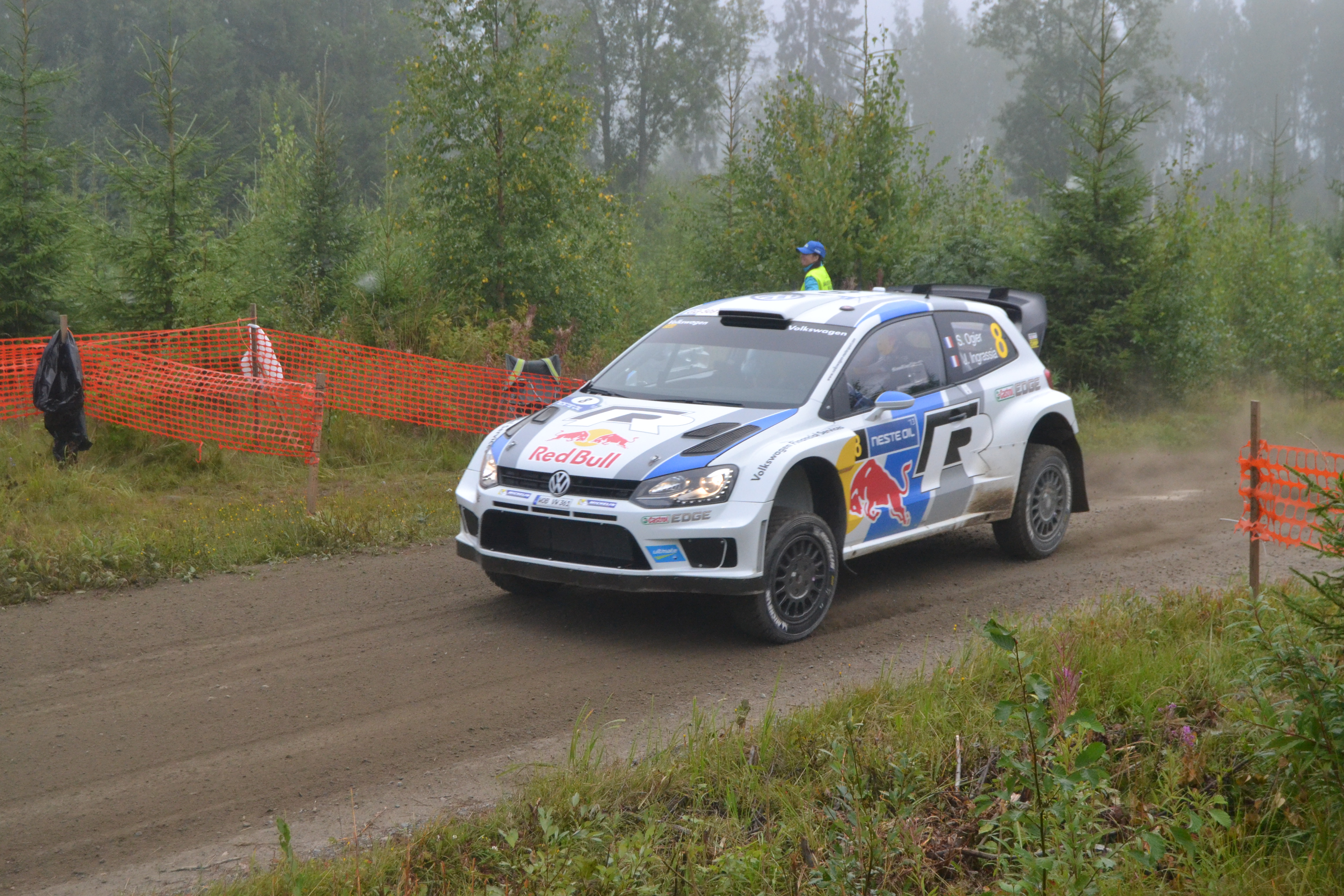 Sébastien Ogier at 1st Surkee stage at 2013 Rally Finland